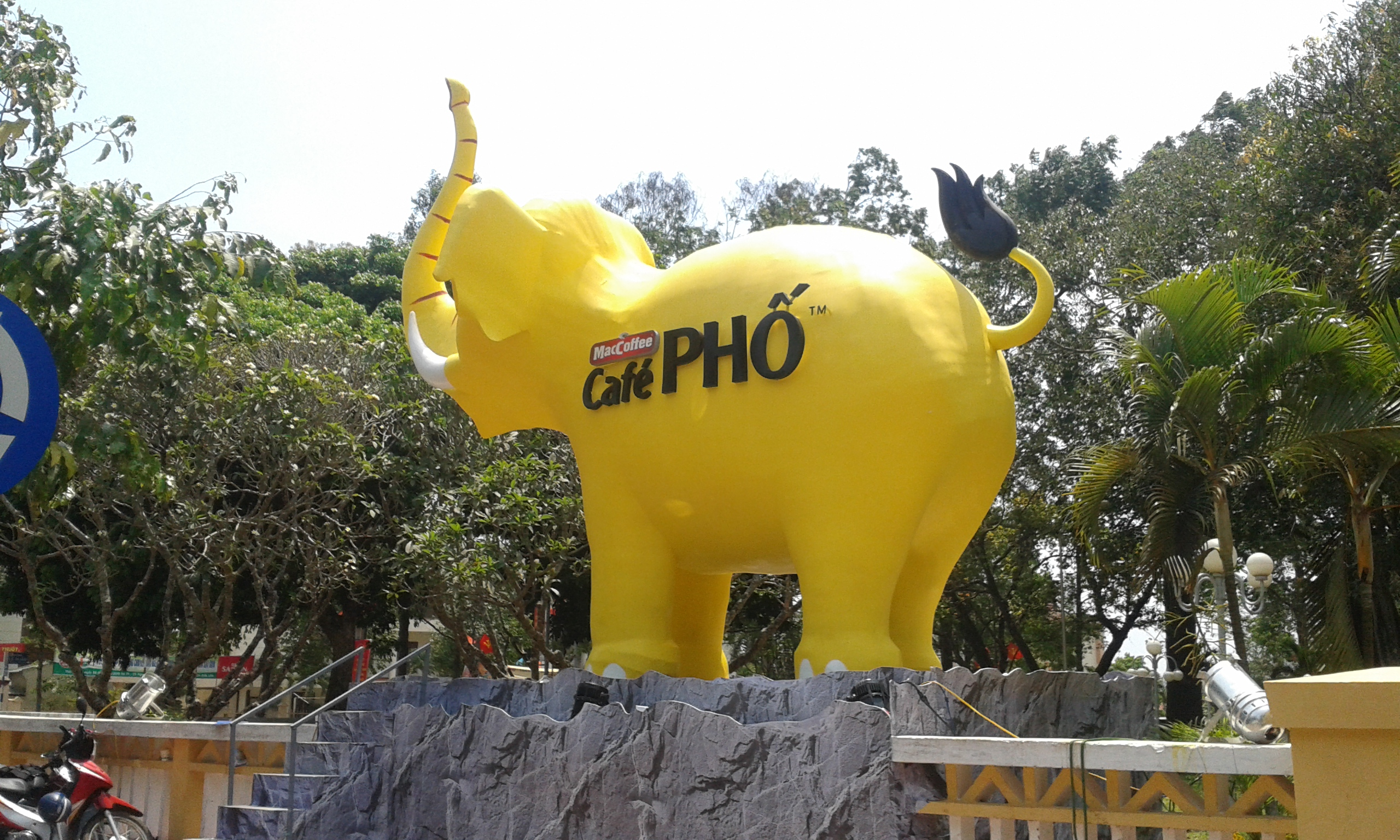 Elephant near museum